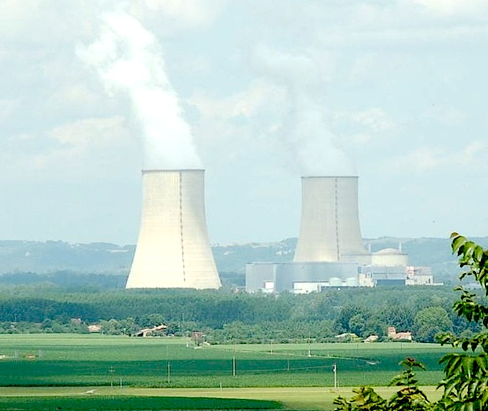 This image: Image:Golfech NPP view from afar.jpg cropped for practical use.